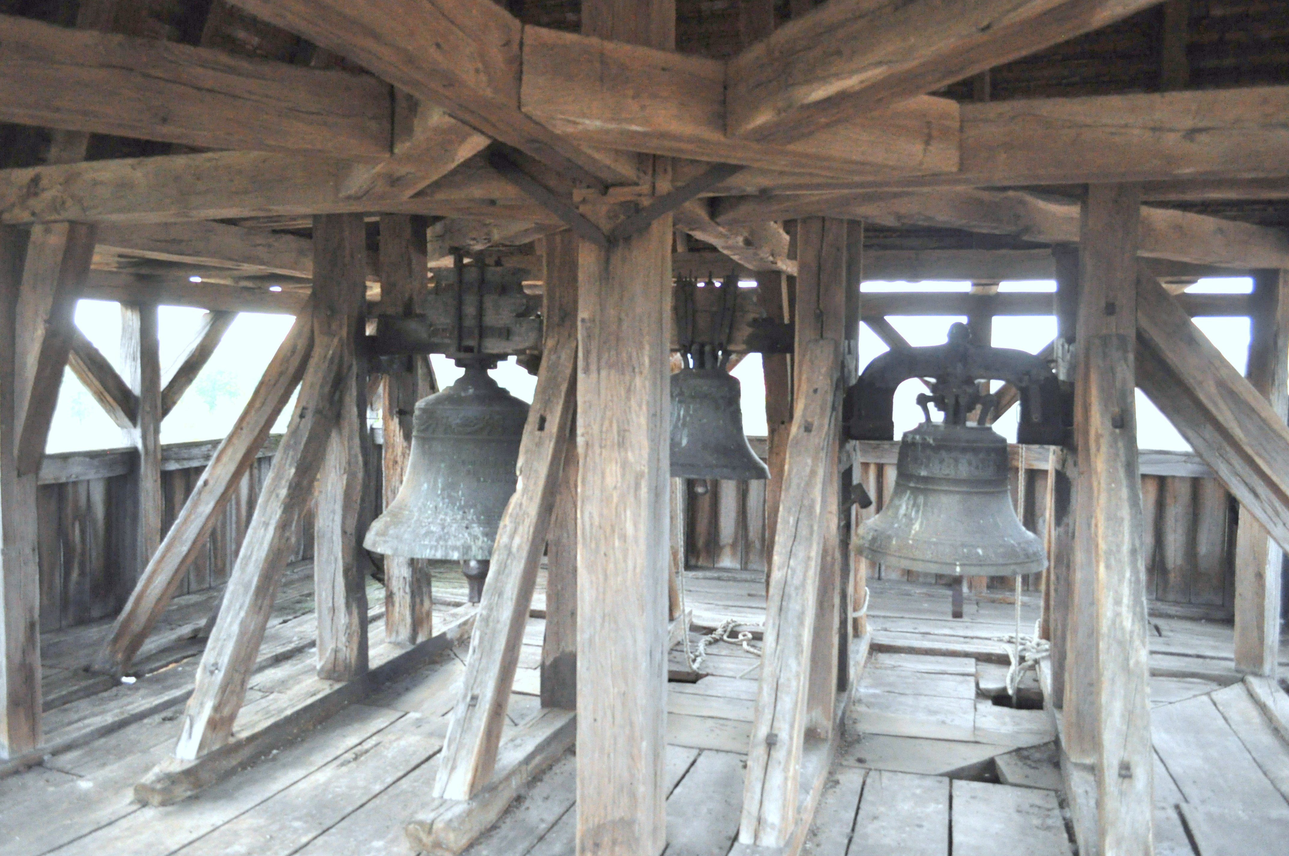 Saxon fortified church in Chirpăr, Sibiu county